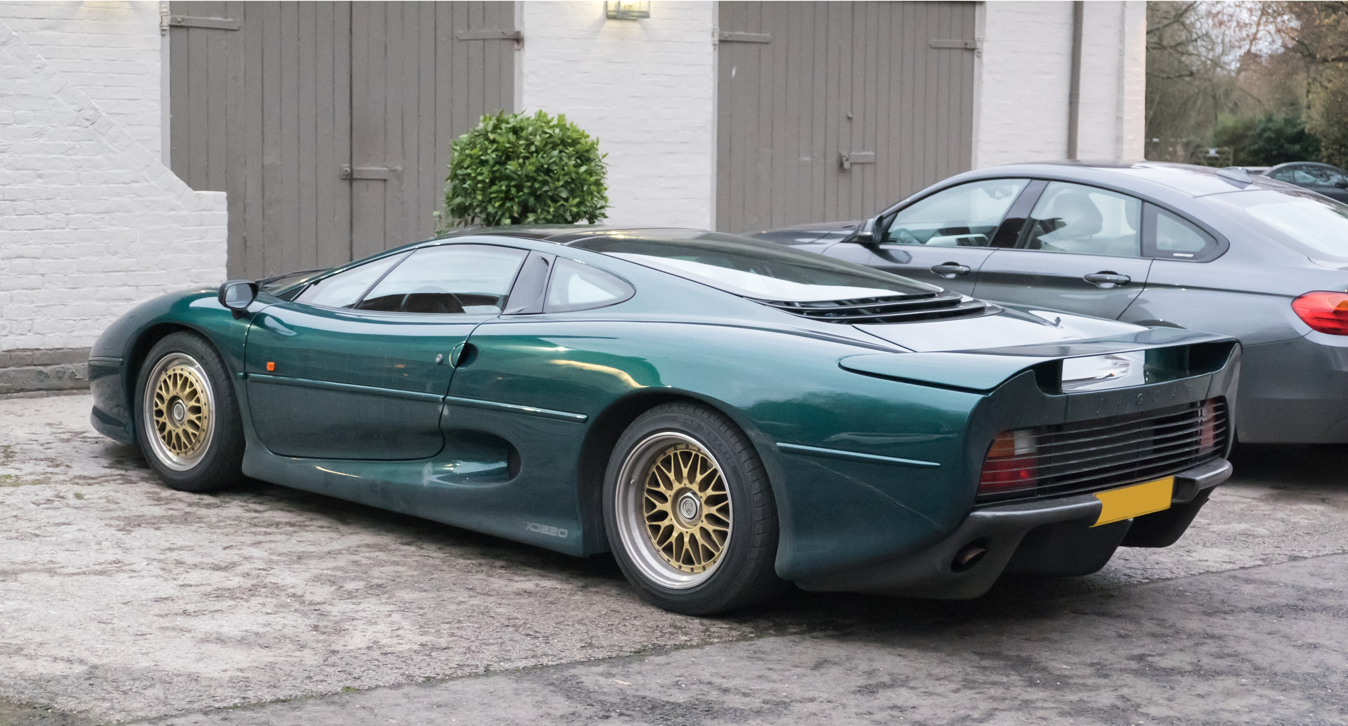 A 1997 Jaguar XJ220